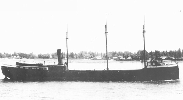 The steamer Ohio underway